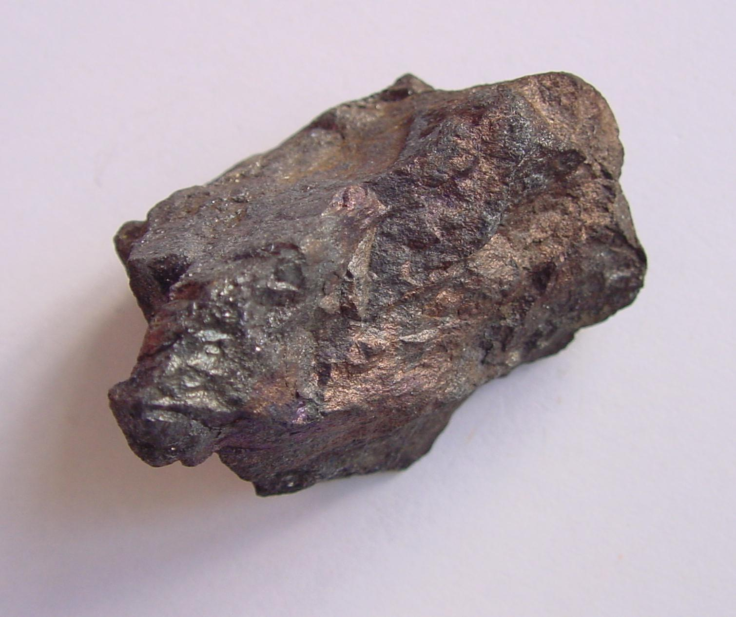 Germanite, probably from the Tsumeb Mine, Otjikoto Region, Namibia. Specimen size 5 cm